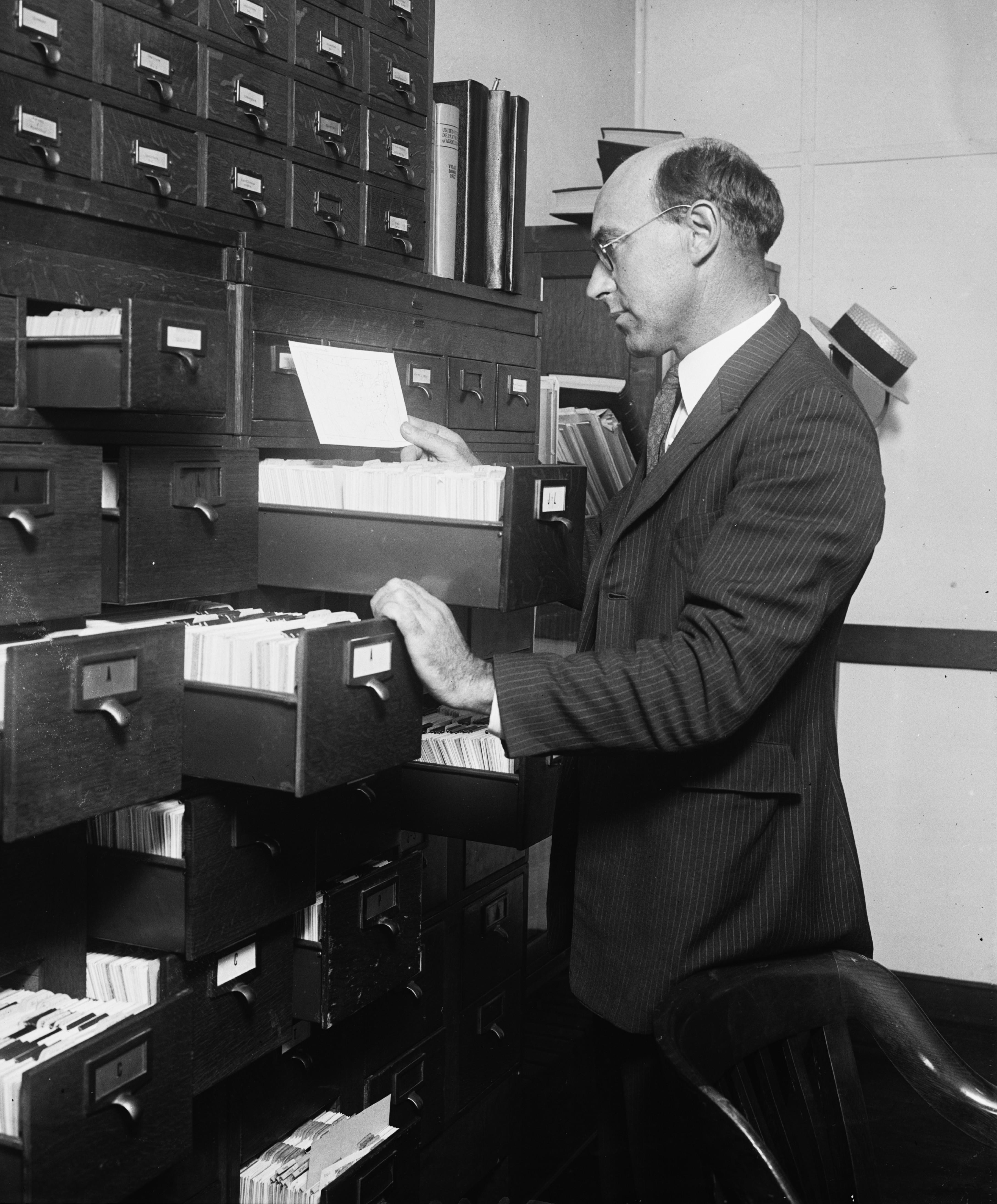 Dr. J.A. Hyslop, of the Bureau of Entomology, Department of Agriculture, who keeps the record of damage done throughout the continent by thousands of harmful insects. These records are filed and studied in order that warnings of impending insects outbreaks may be sent to the entomologist so that he may prepare to fight the invading hordes.